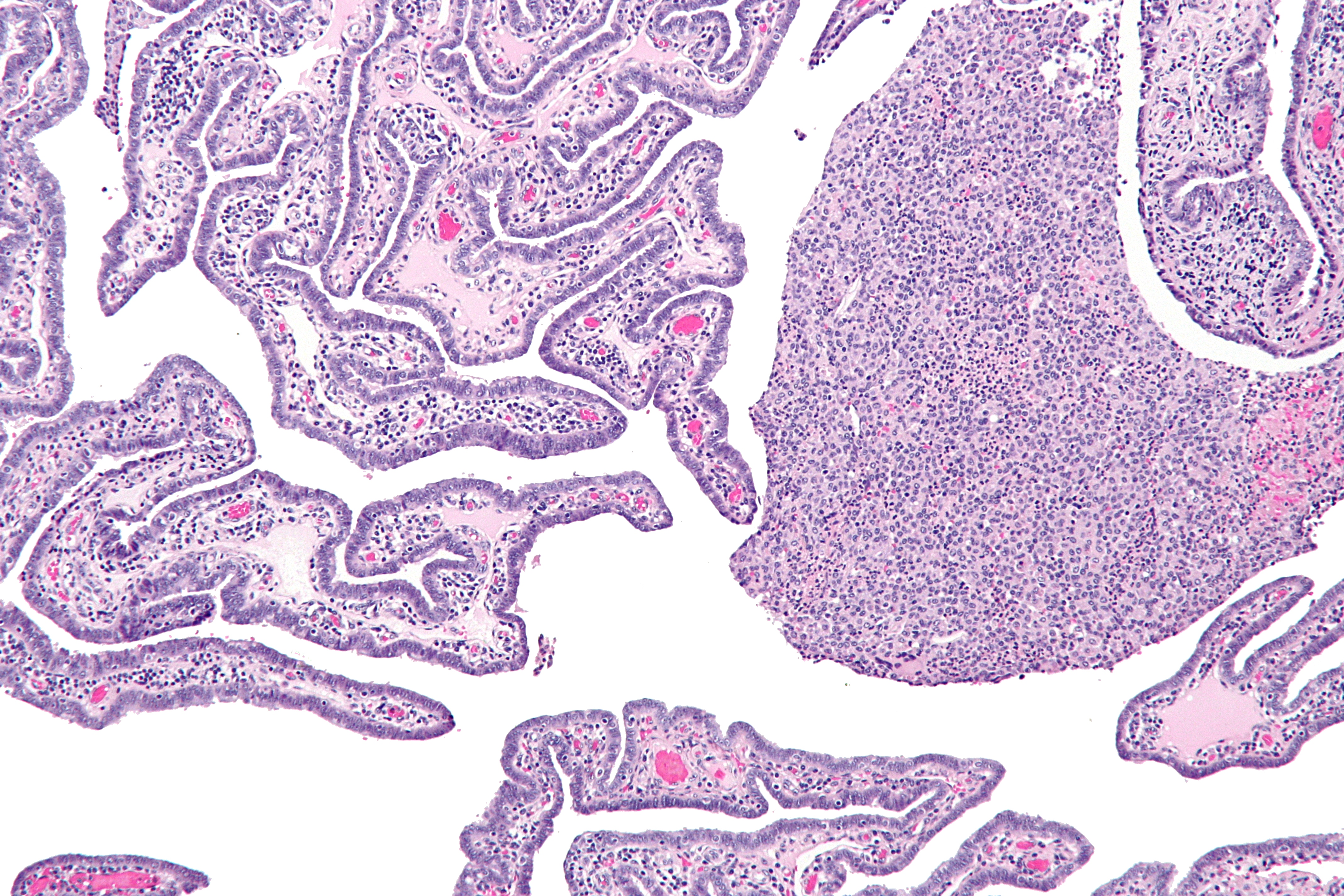 Intermediate magnification micrograph of acute and chronic salpingitis. H&E stain. Related images Low mag. Intermed. mag. High mag. Very high mag.